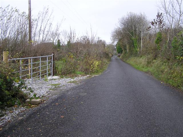 Road at Drumbrughas Heading ENE